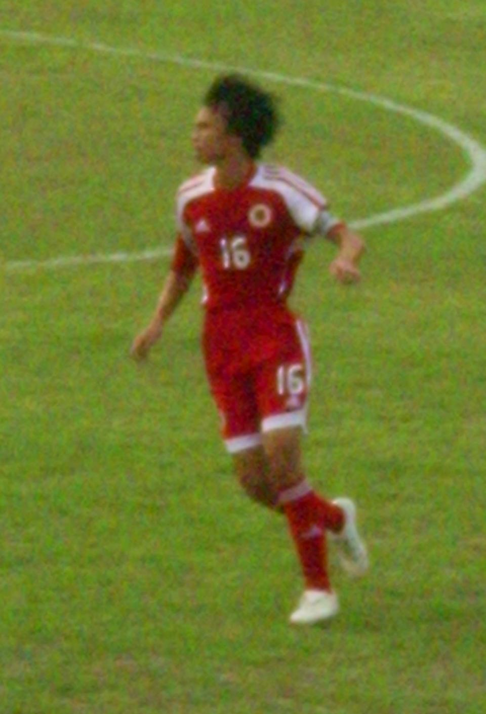 Leung Chun Pong in 2009 Hong Kong Macau Interpot 中文（香港）: 梁振邦於2009年港澳埠際賽